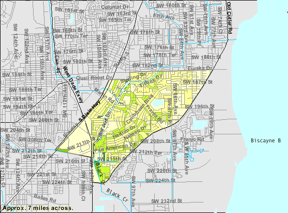 map of Cutler Bay, FL showing boundaries